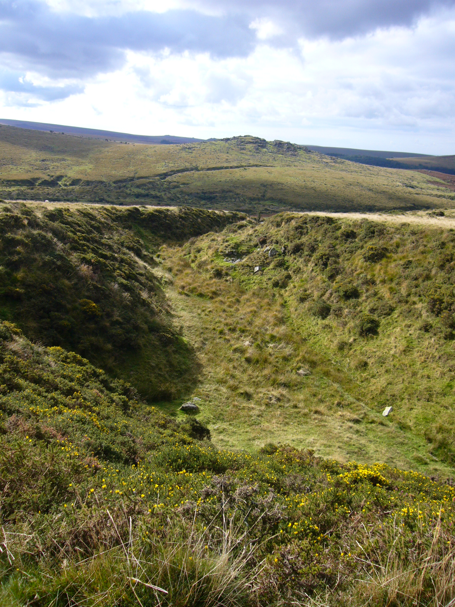 Tinners working below Crazywell Pool on southern Dartmoor. These may be the reason for the existence of the pool.